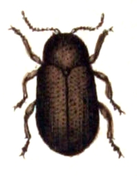 Pachnephorus pilosus, from Calwer's Käferbuch, Table 45, Picture 7. Taxonomy was updated to 2008, using mostly the sites Fauna Europaea and BioLib. Please contact Sarefo if the determination is wrong!